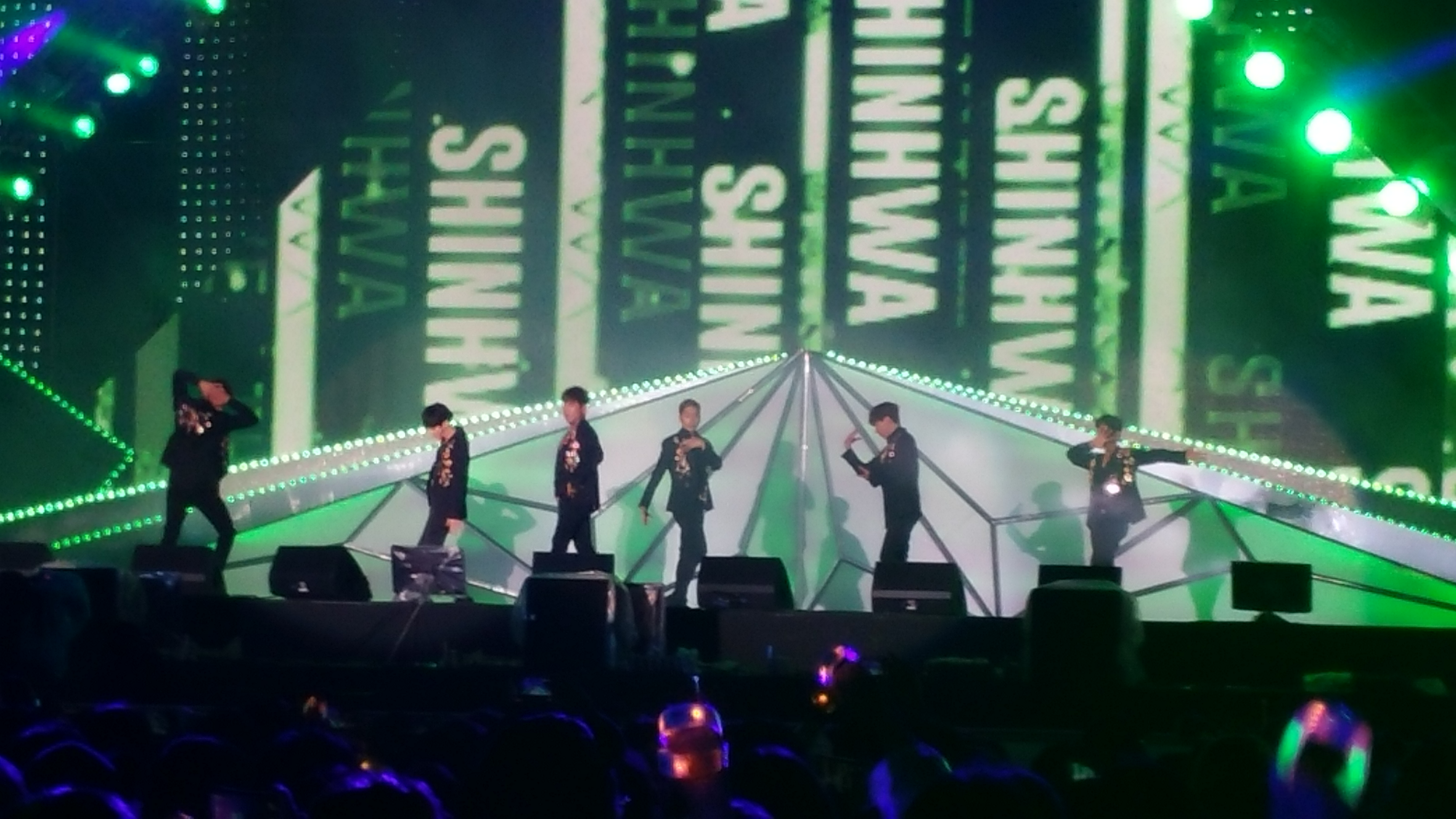 KCON JEJU 2015, stadium concert performers Shinhwa, November 7, Jeju Stadium, Jejudo, South Korea.